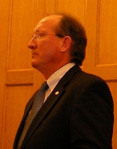 Iowa Sen. David Johnson on Feb. 4 at the Iowa Statehouse.